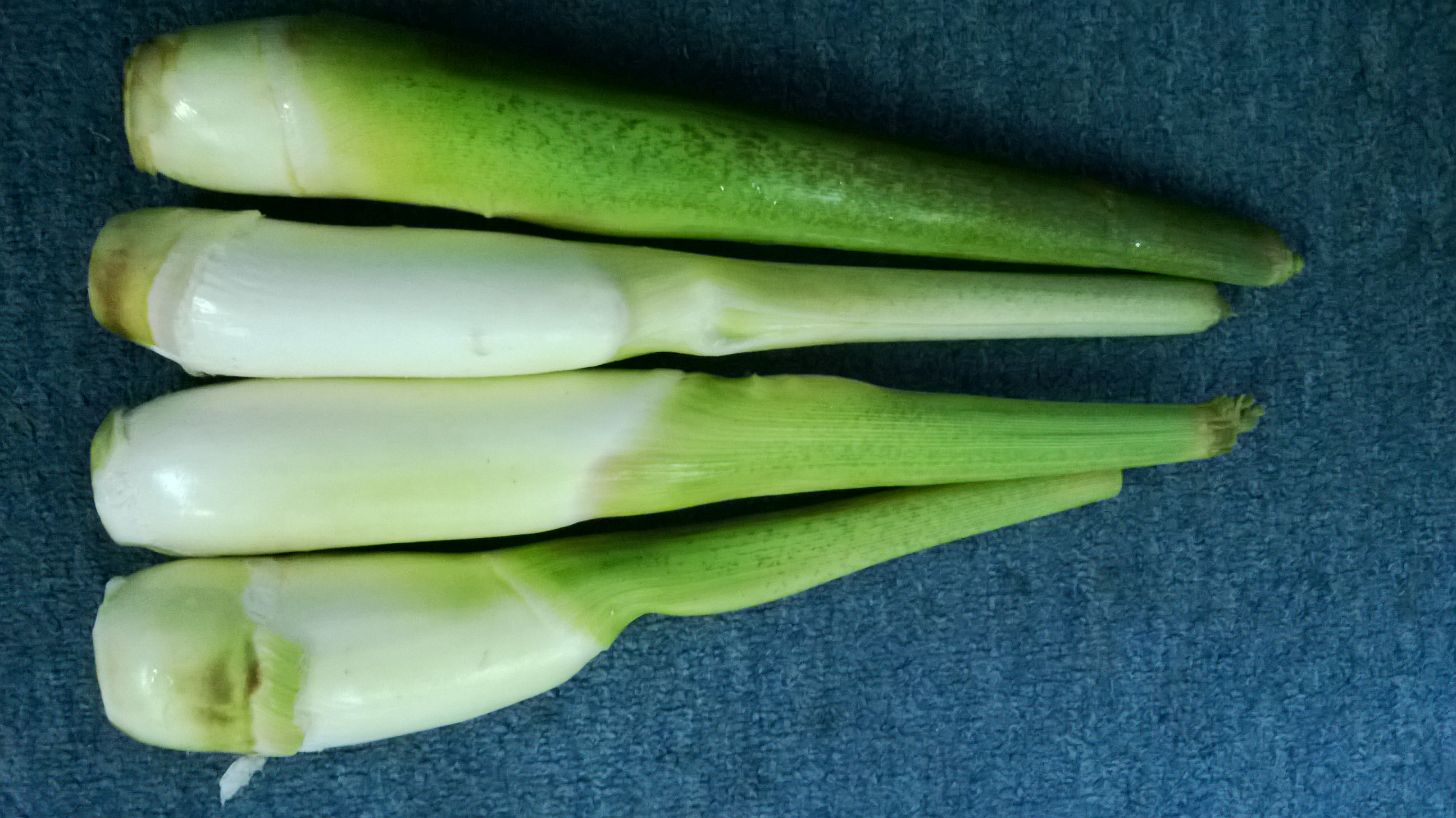 Zizania latifolia in Hanoi, Vietnam